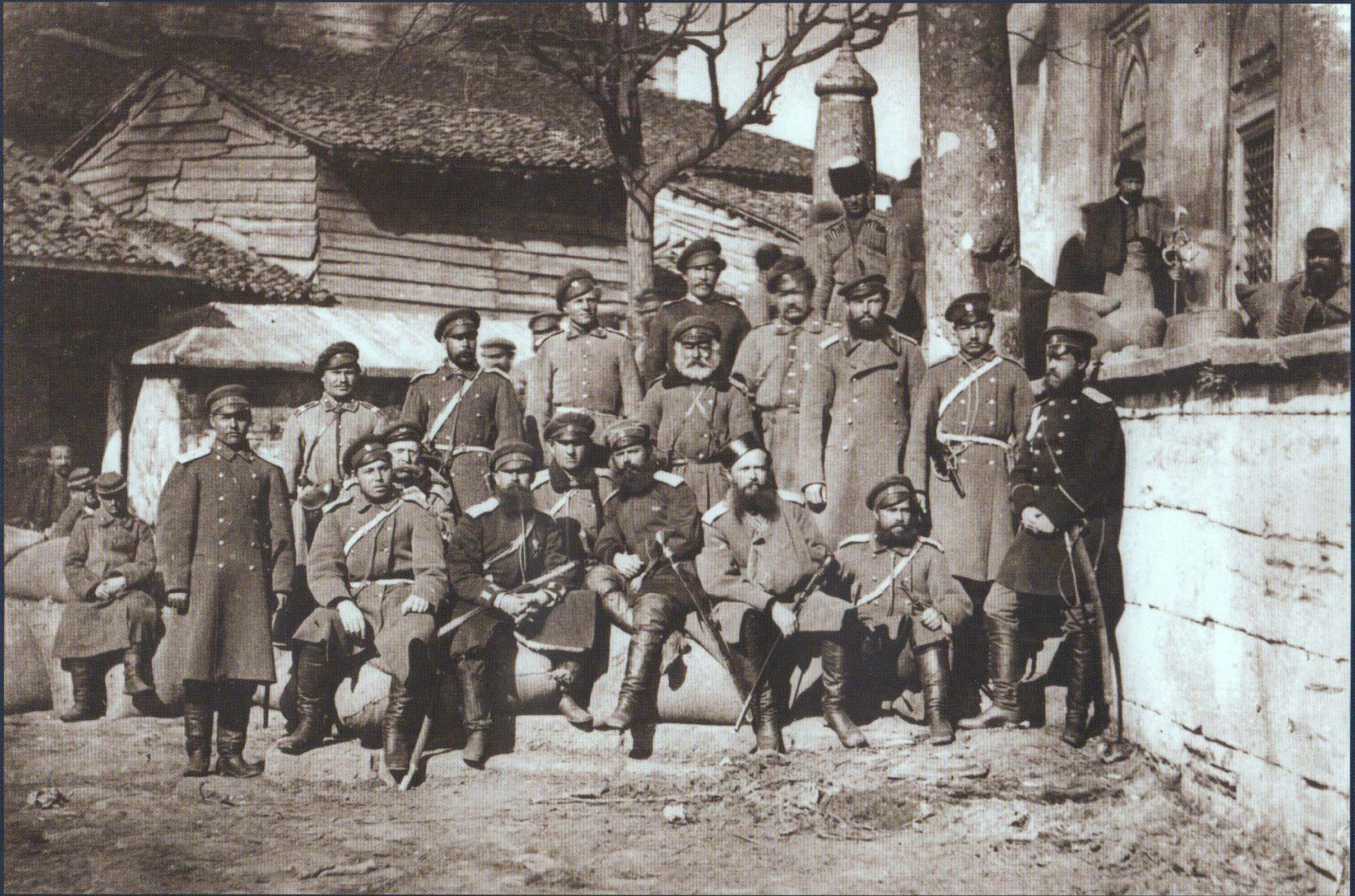 Kossak regiment in Tyrnov.